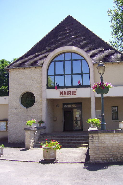 View of town hall of city of Cubjac in Dordogne, France.